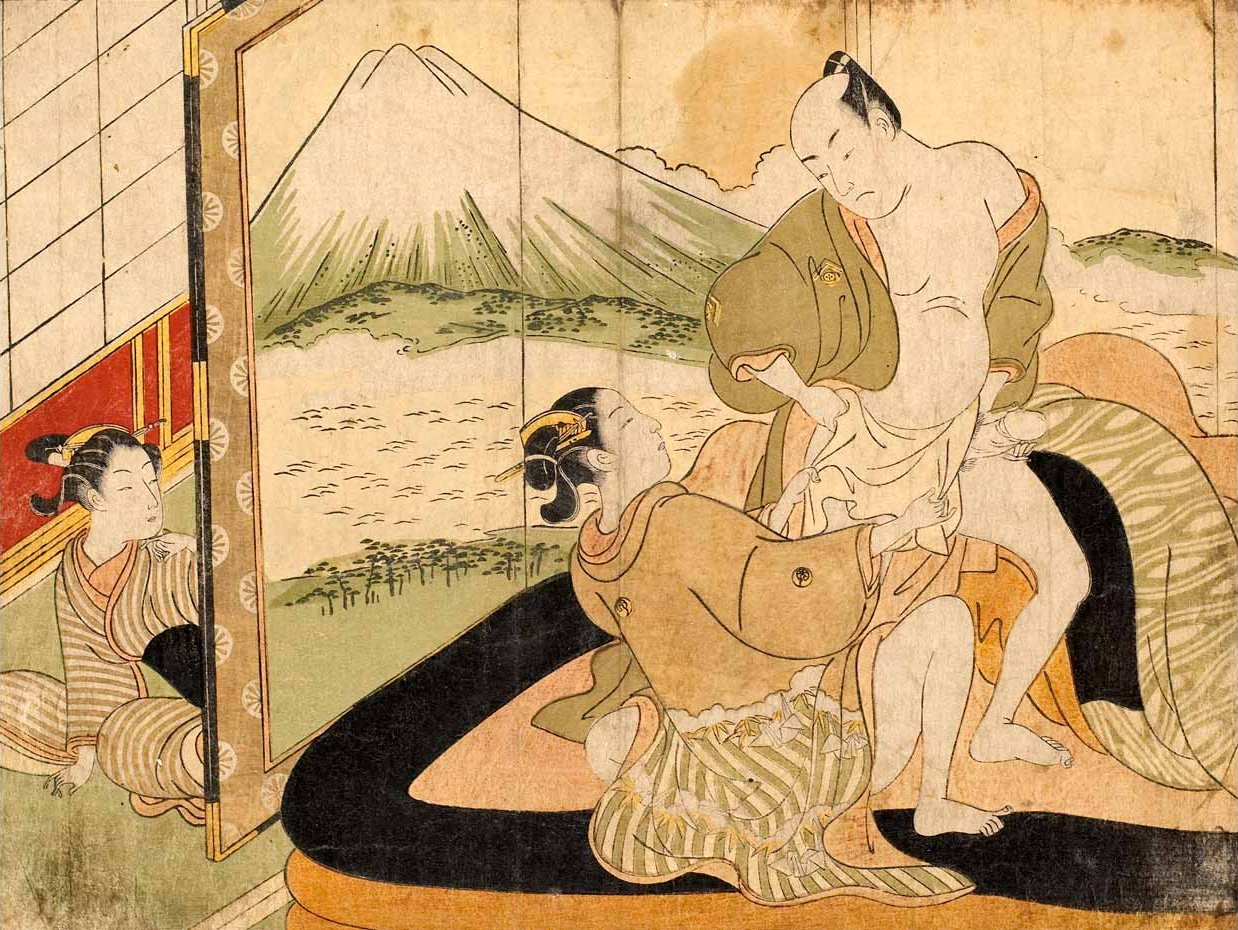 Glorious View of Mount Fuji by Suzuki Harunobu, c. 1770, Honolulu Museum of Art